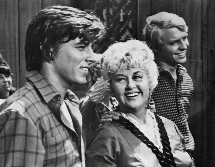 Photo of Bobby Sherman, Joan Blondell and David Soul from the television program Here Come the Brides.